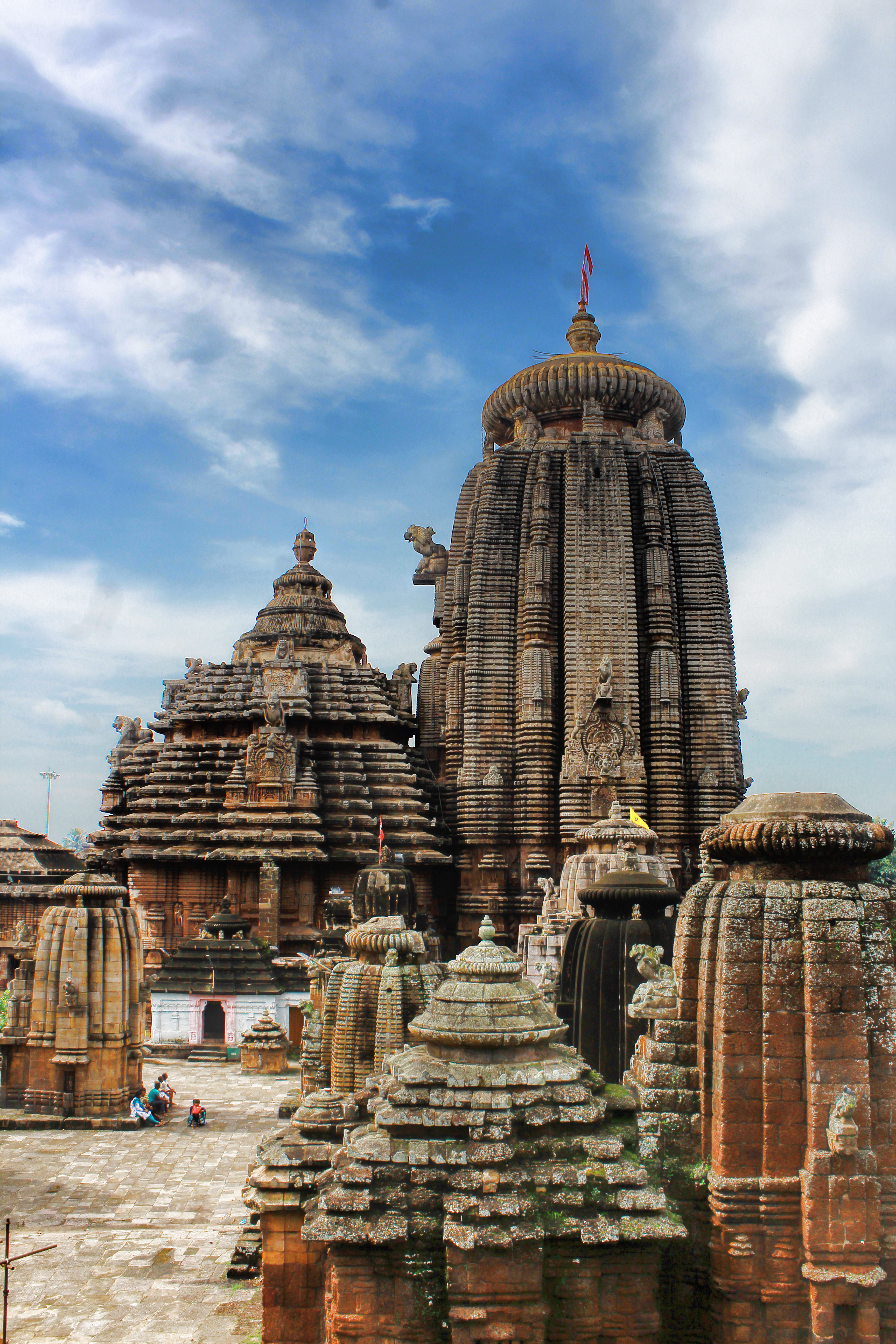 our Heritage Lingaraj Temple in Specific Potrait View.